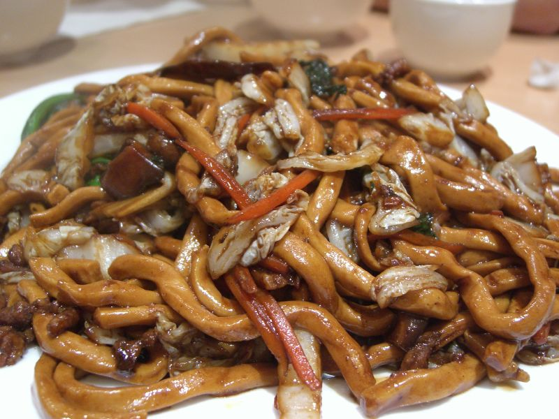 ????? Shanghai Fried Noodles - DC Noodle, Box Hill Not bad noodles. Better than David & Camy across the road. David and Camy Noodle Restaurant 596 Station St 3128 - [/photos/avlxyz/504366768/ Steamed Pork Dumplings] - [/photos/avlxyz/504401035/ Corn Flour Steamed Buns] - [/photos/avlxyz/504366900/ Sweet Potato Noodle Stir-Fried with Pork] - [/photos/avlxyz/504401267/ Shanghai Fried Noodle] - [/photos/avlxyz/504401365/ Red Bean Pancake] Second visit: - [/photos/avlxyz/521465727/ David and Camy Noodle Restaurant Shopfront] - [/photos/avlxyz/521426140/ Wonton Soup] - [/photos/avlxyz/521457547/ Salt and Pepper Chicken Ribs] - [/photos/avlxyz/521427464/ Chive Puffs] Third visit 2007.06.23: - [/photos/avlxyz/649330496/ Fried Rice Cake] - [/photos/avlxyz/648467995/ Chinese Cabbage in Cream Sauce] - [/photos/avlxyz/648471769/ Vegetarian E-fu Noodles - David & Camy] - [/photos/avlxyz/649342894/ Boiled Dumplings] - [/photos/avlxyz/648479379/ Xiaolongbao ???] - [/photos/avlxyz/648483261/ Chilli Oil]